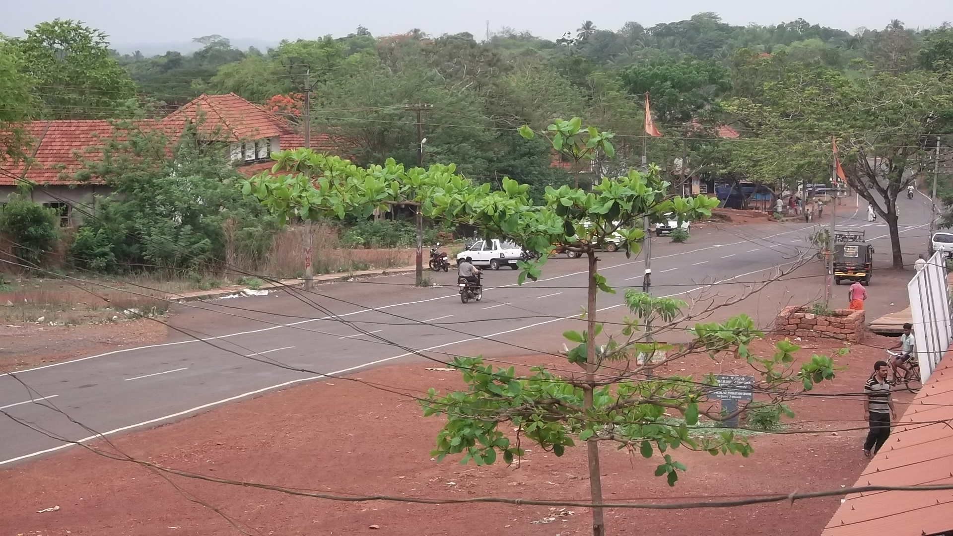 Photo